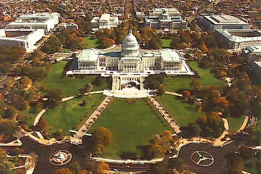 Overhead view of the Capitol Hill.